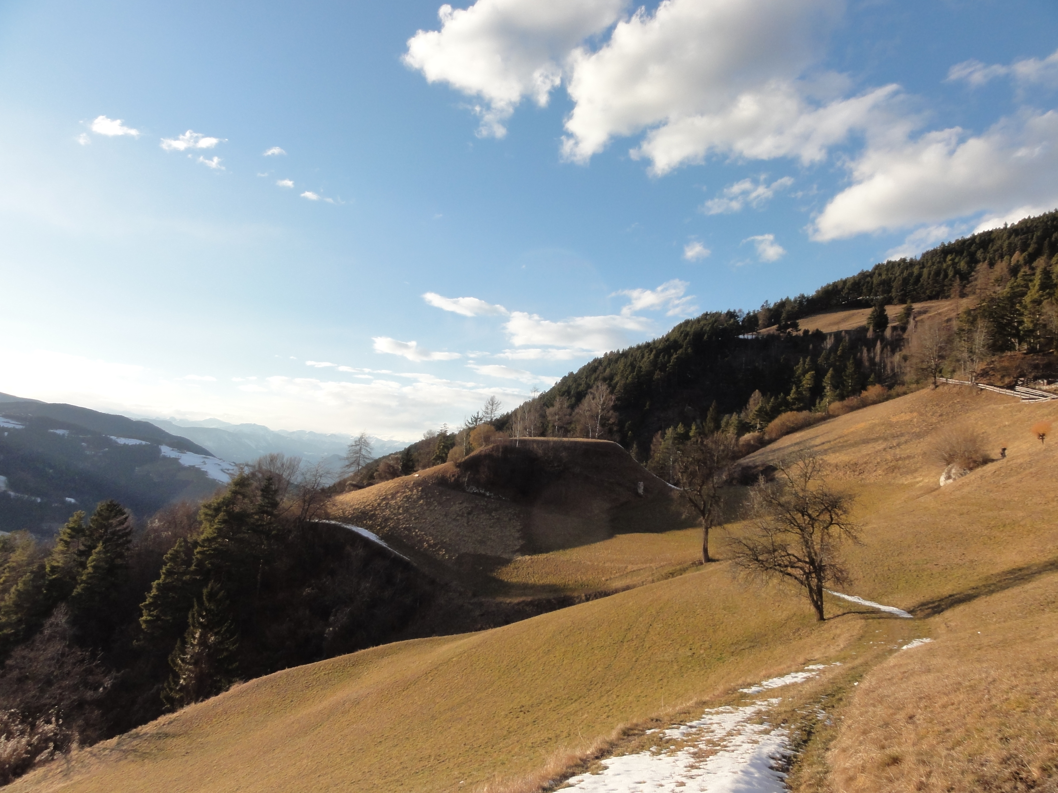 Thalerbuhel, Sacrificial burnt offerings site from the Middle Iron Age (ca. 6th to 5th century BC.), artificial flattening of a natural elevation to achieve the approximate shape of an oversized natural altar